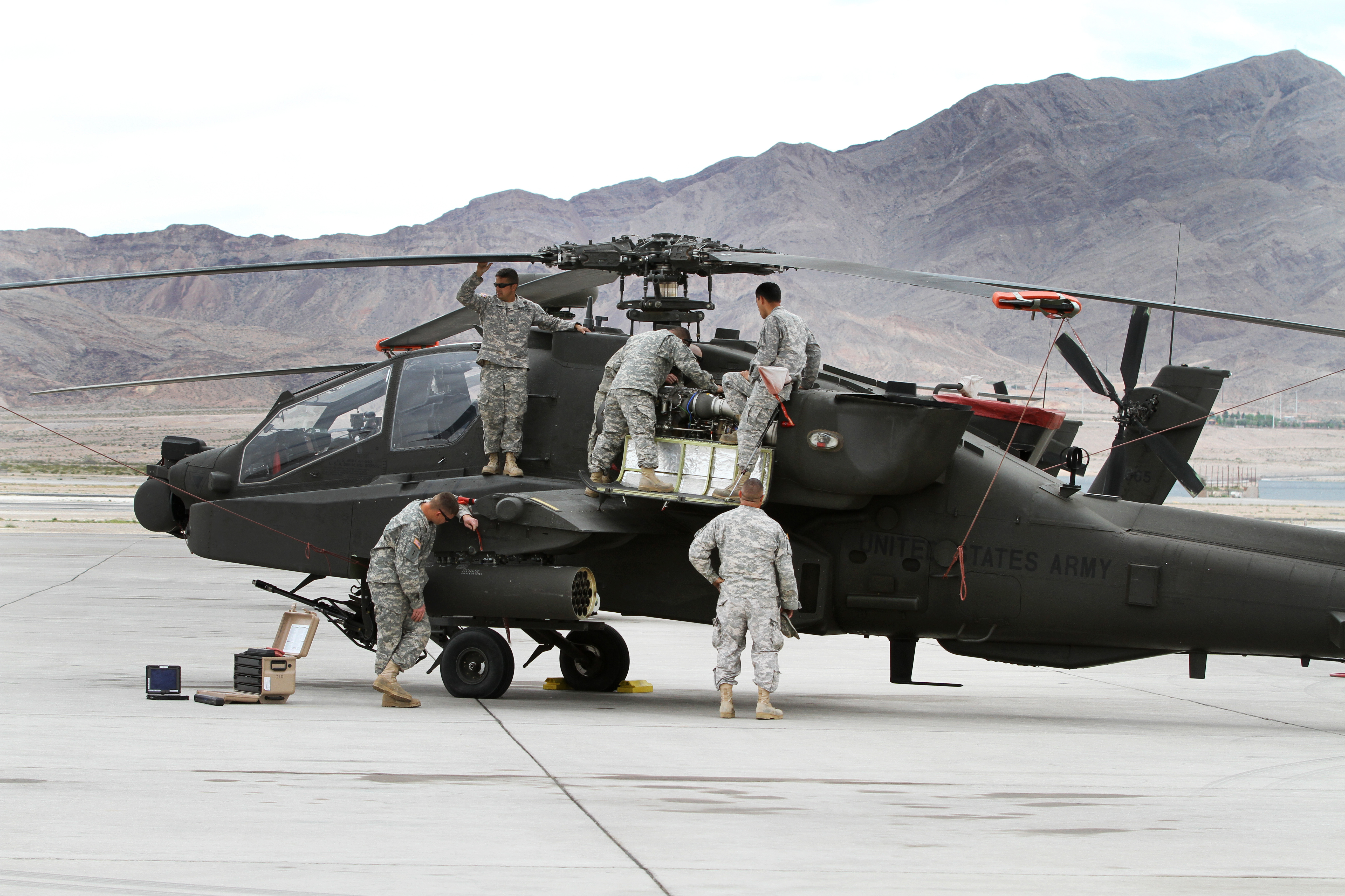 Arizona Army National Guardsmen with 1-285th Attack Reconnaissance Battalion prepare an AH-64D Apache Helicopter at Nellis Air Force Base, Nev., April 9. The Guardsmen were participating in an exercise with the U.S. Air Force 66th Weapons Squadron A-10s and joint terminal attack control students. (Army National Guard photo by Sgt. Adrian Borunda)